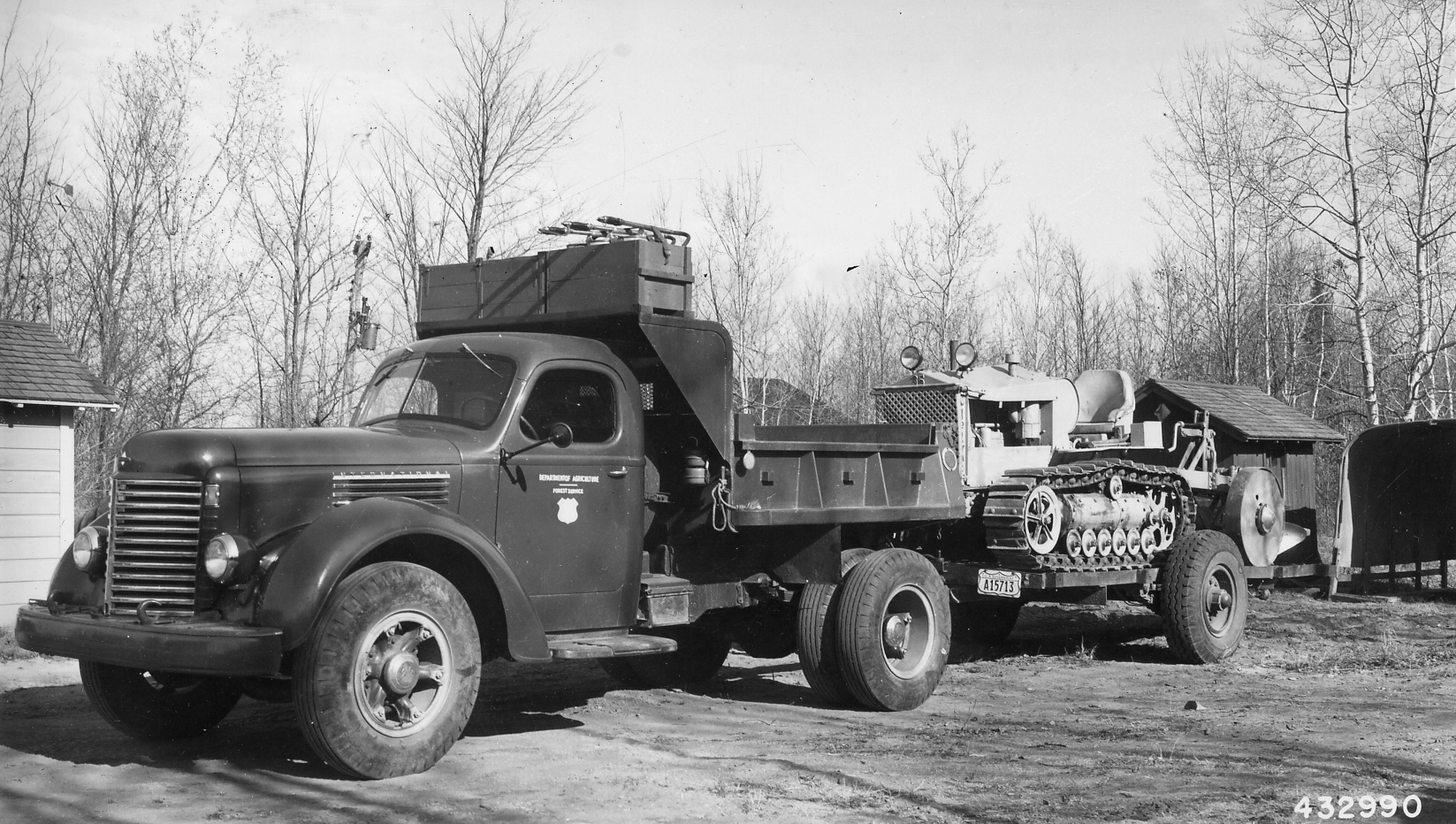 Scope and content: Original caption: Nicolet fire tractor and plow loaded on tilting bed trailer ready for movement. Nicolet NF.